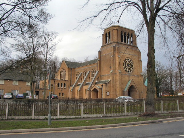 Holy Angels' Church near St Ambrose College in Hale Barns.